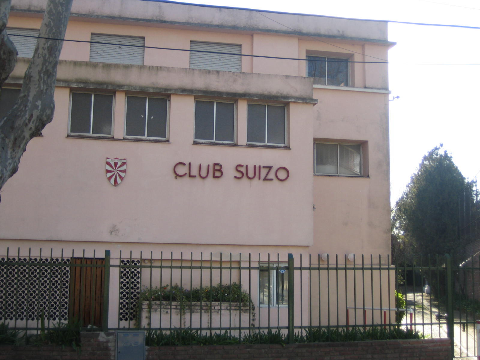 Club Suizo de Buenos Aires - El Tigre - Buenos Aires - Argentina